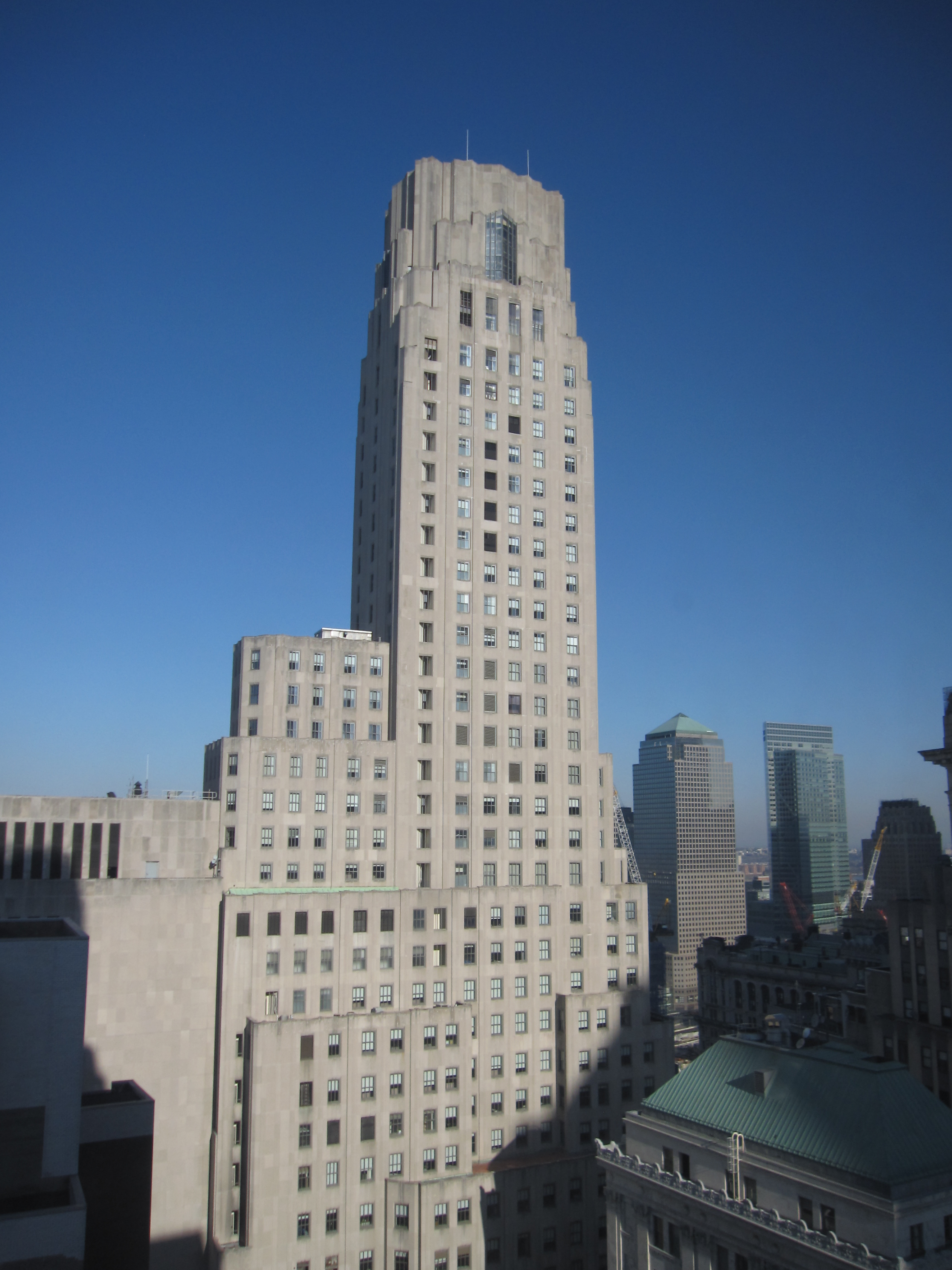 1 Wall Street